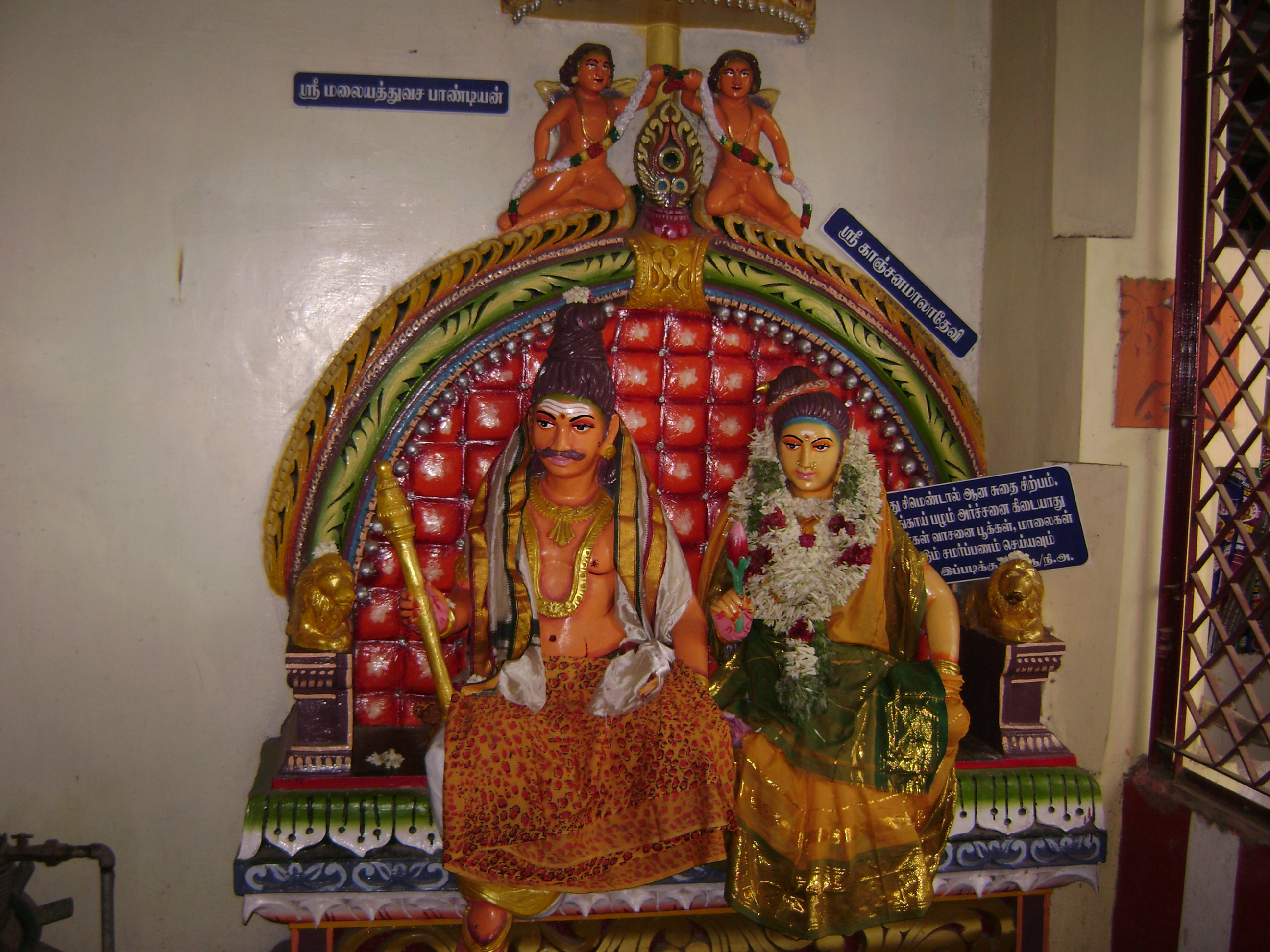 Parents of Meenakshi; King Pandiya and Kanchanamalai